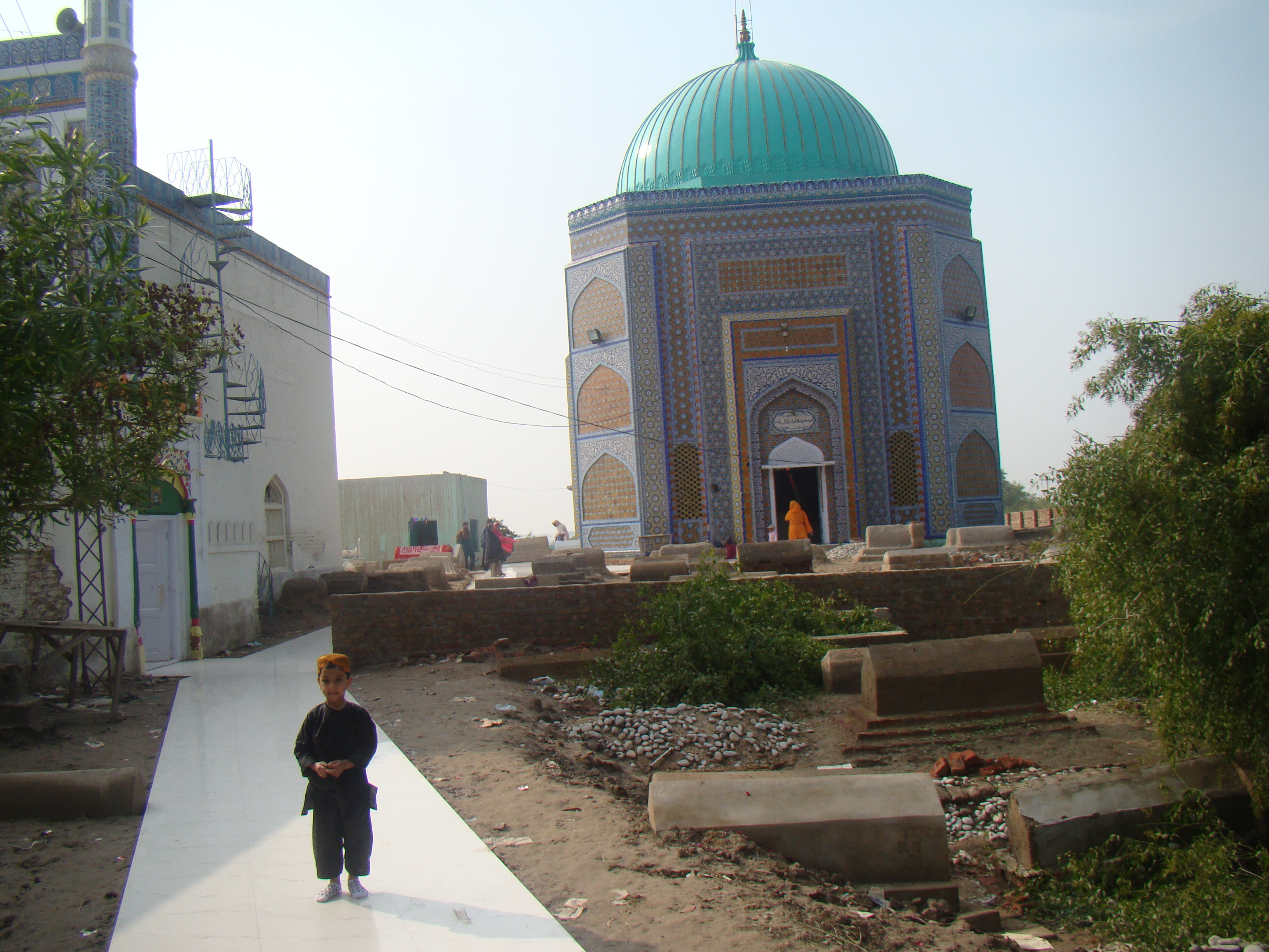 سنڌي: Picture of Hazrat Makhdoom bilawal Shrine